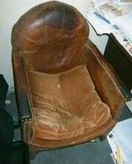 Physics Nobel Laureate Louis de Broglie's chair from his office given to Jean-Pierre Vigier after his death